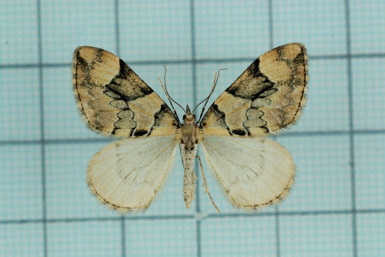 Pennithera manifesta Inoue, 1986 黃角環波尺蛾 臺灣尺蛾科圖鑑１ P.316 female